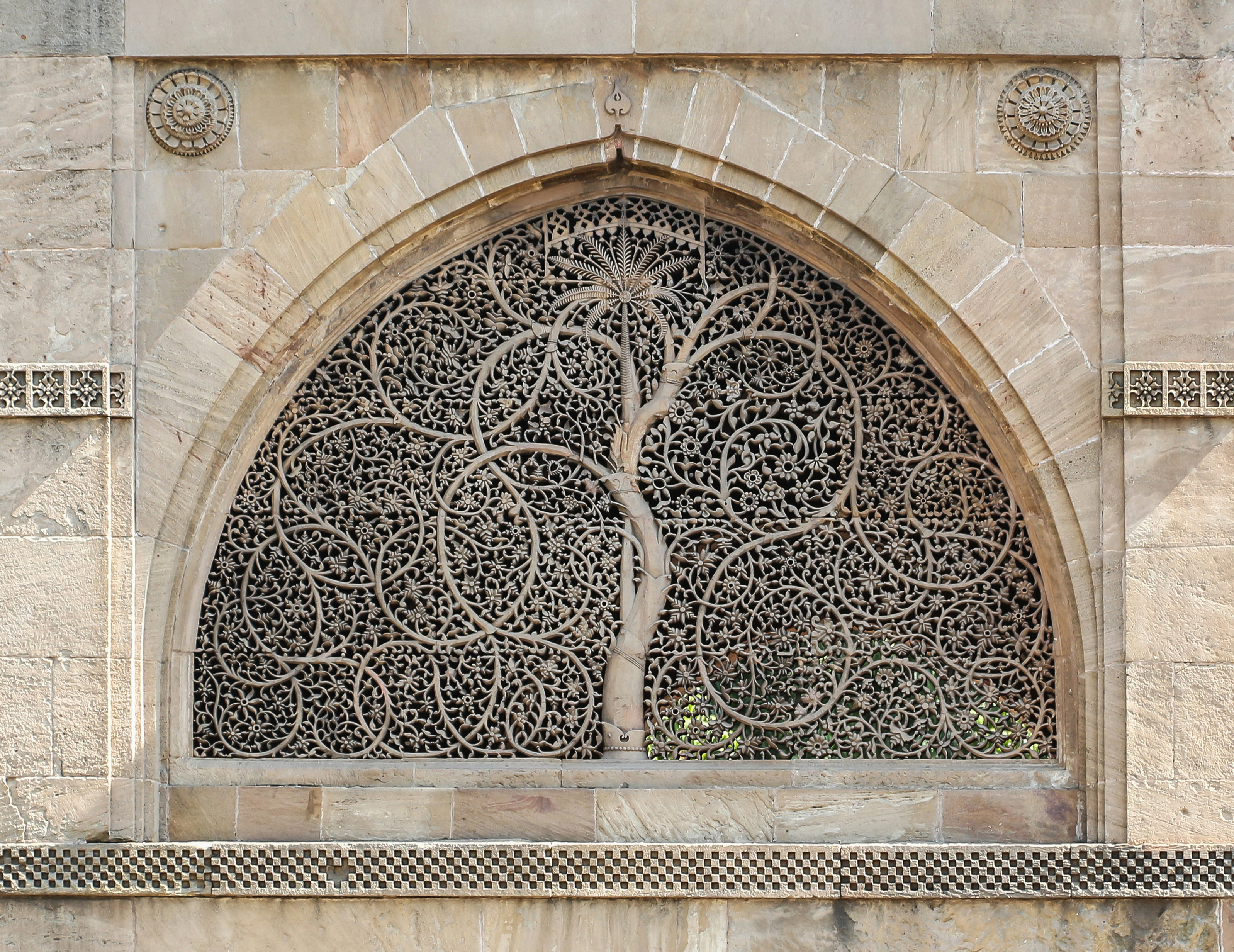 Jali at Sidi Saiyyed Mosque, Ahmedabad, India